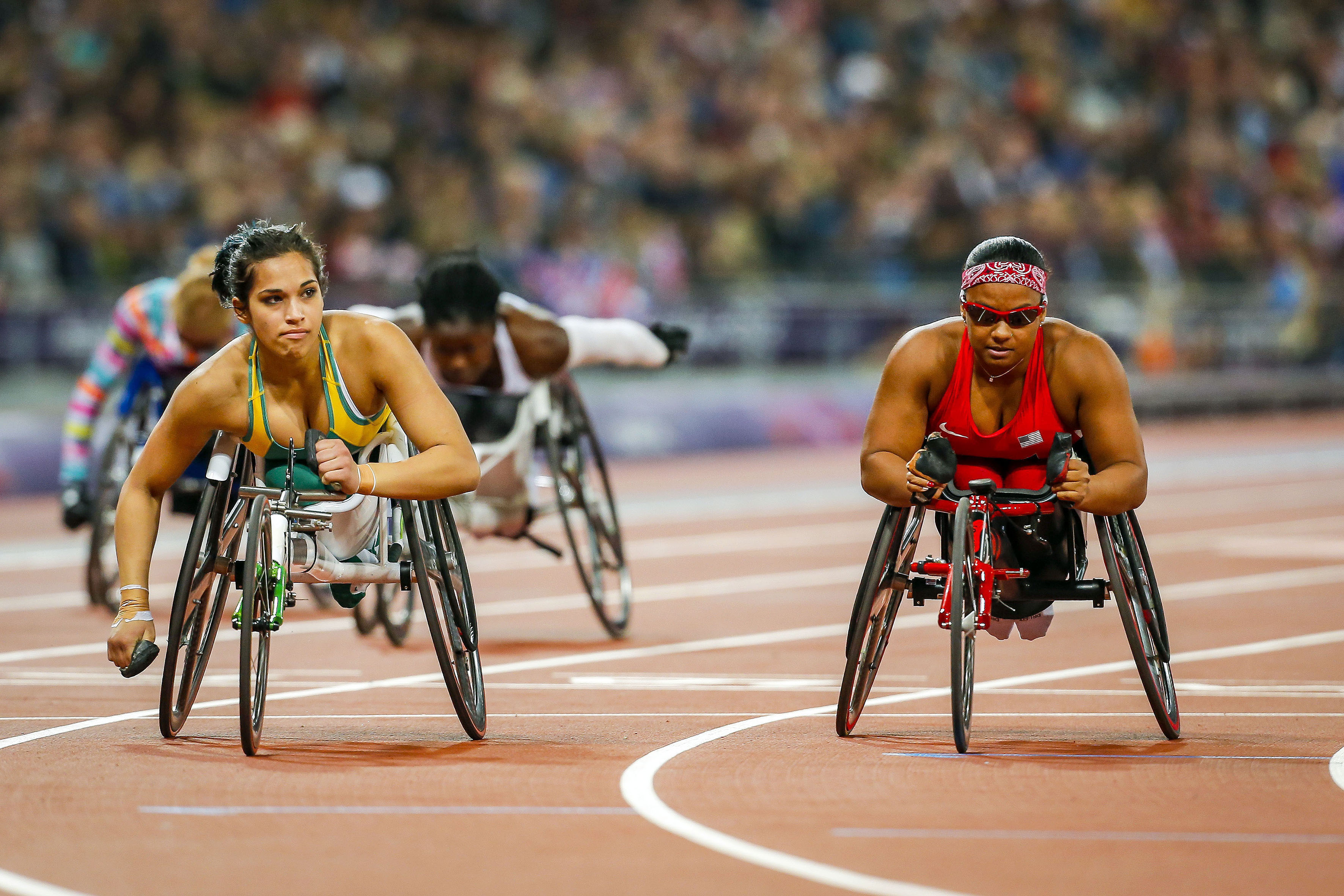 Photograph of Australia's Madison de Rozario (left) and the United States' Anjali Forber-Pratt at the 2012 Summer Paralympic Games in London at the end of the women's T53 100m race. In the background are Jessica Cooper Lewis of Bermuda (far left with multi-coloured suit) and Anita Fordjour of Ghana (white vest with white arms.